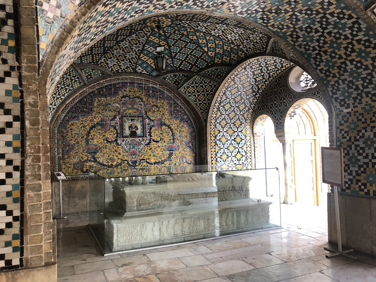 Naser al-Din Shah's tomb stone